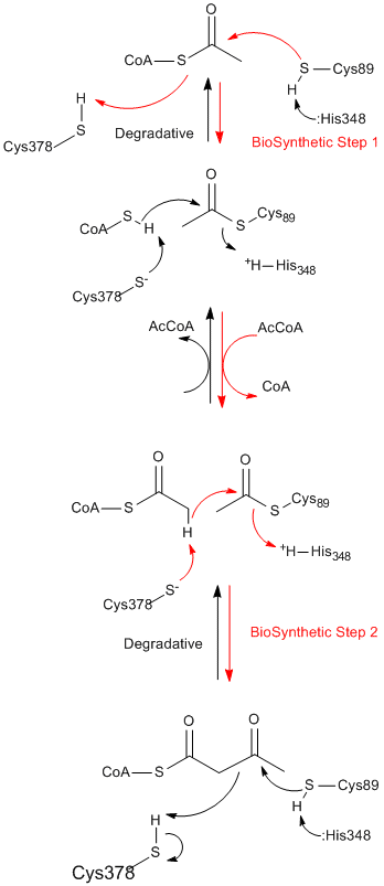 Ali Rastegar, Drawn in Chem Draw